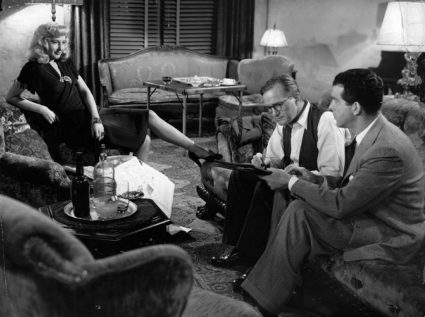 Promotional still from the 1944 film Double Indemnity